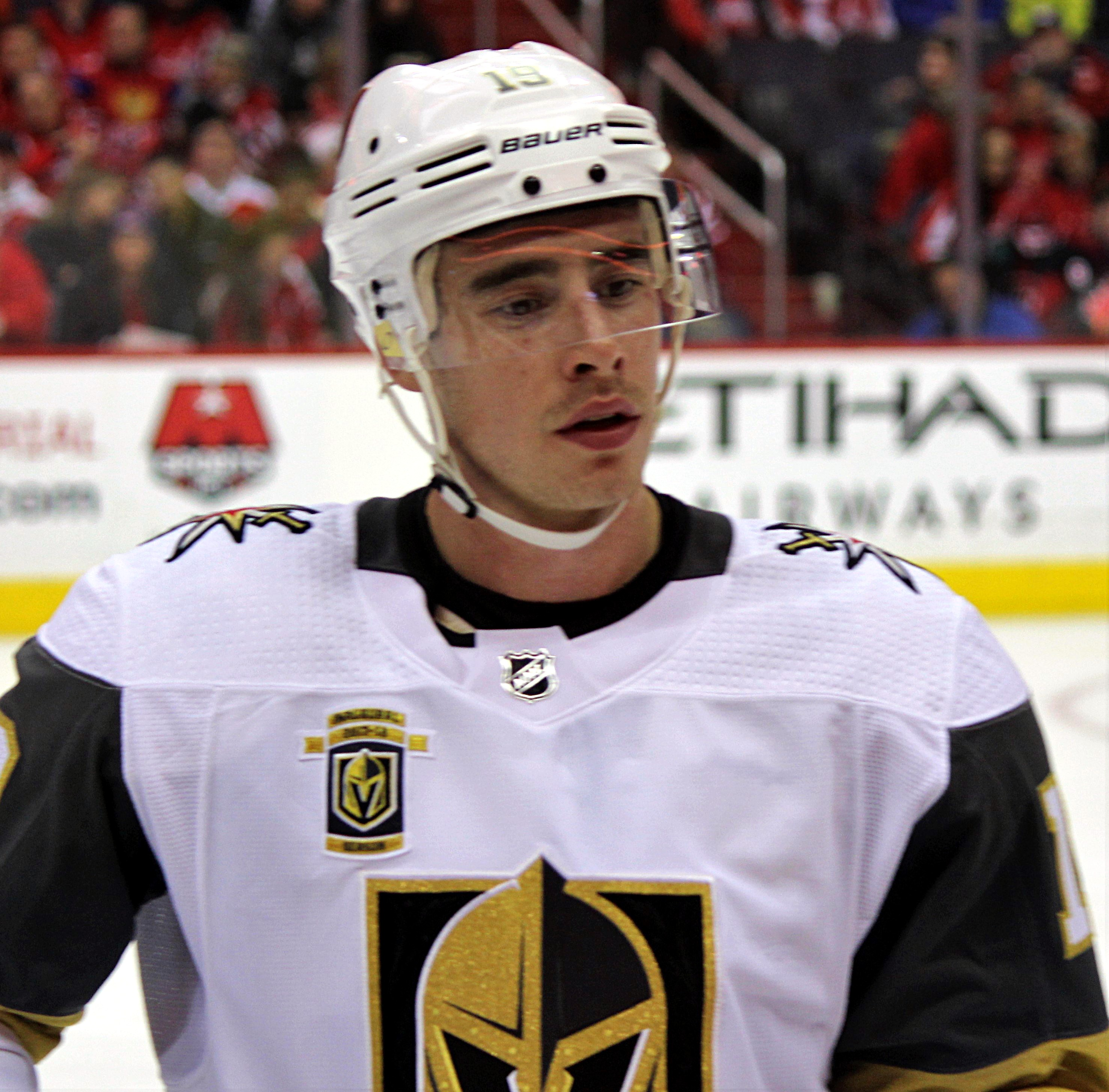 Vegas Golden Knights forward Reily Smith during a game against the Washington Capitals, February 4, 2018, at Capital One Arena in Washington, D.C.